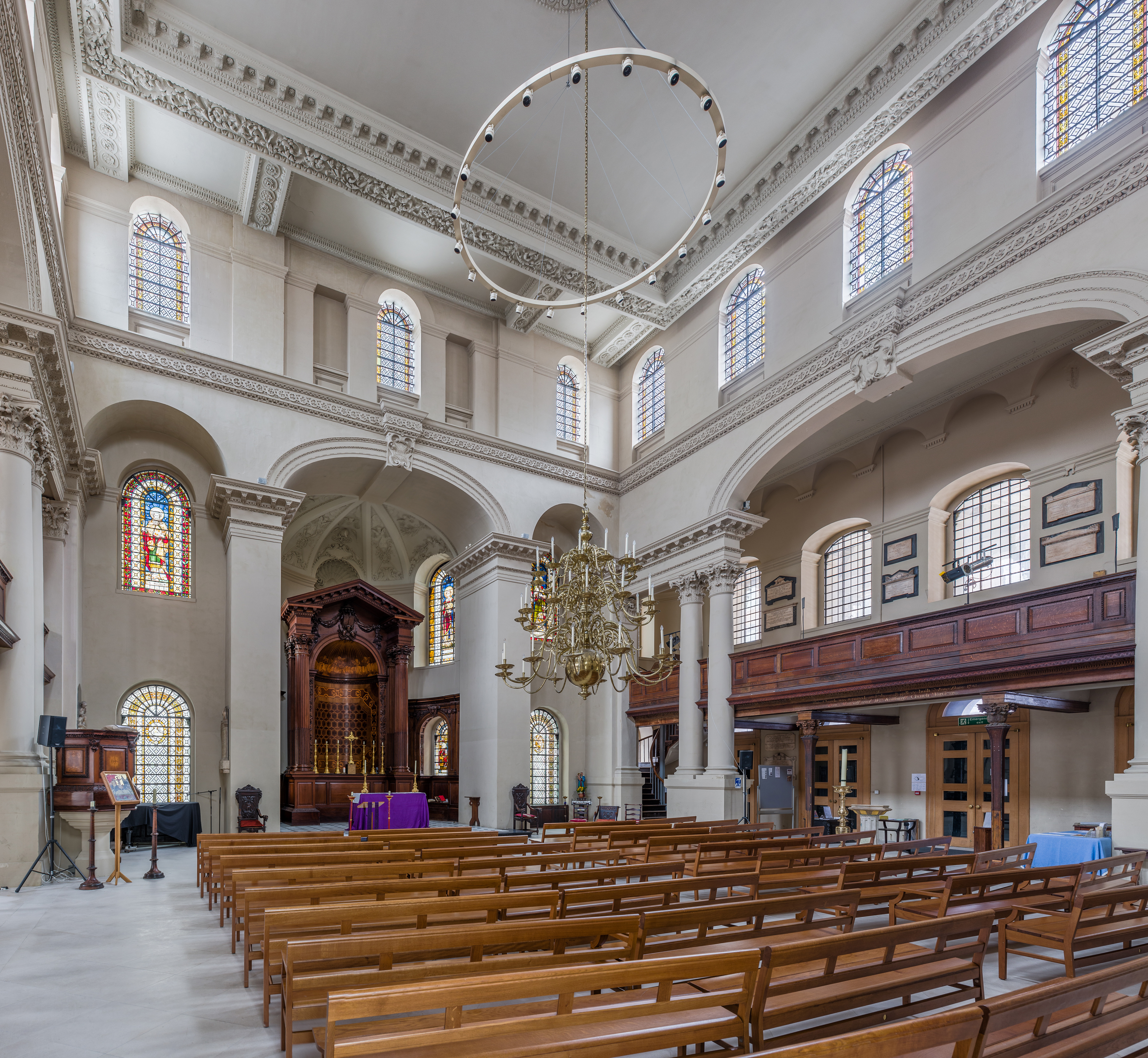 The interior of St George's Church, Bloomsbury in London, England.